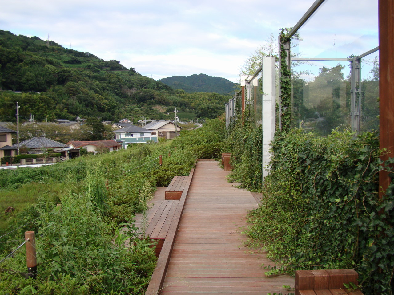 Walking path at Nihonzaka Parking Area on the Tomei Expressway eastbound line in Yaizu City, Shizuoka Prefecture, Japan